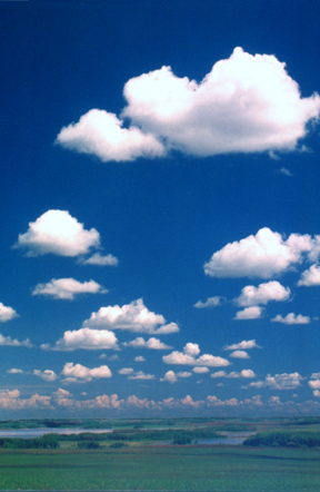 This sky has "nice day" written all over it. The cumulus humilis indicates very little convection in the lower atmosphere, and the fact that it is well-formed indicates light winds at low levels. There is no cloud aloft, and thus no moisture or stable conditions or both. The cumulus congestus on the horizon suggests showers may be possible three or four hours from now, at the earliest, but chances are good it will remain a pleasant day through until the evening. The azure blue is typical of Alberta's clear, dust/haze/pollution-free skies.